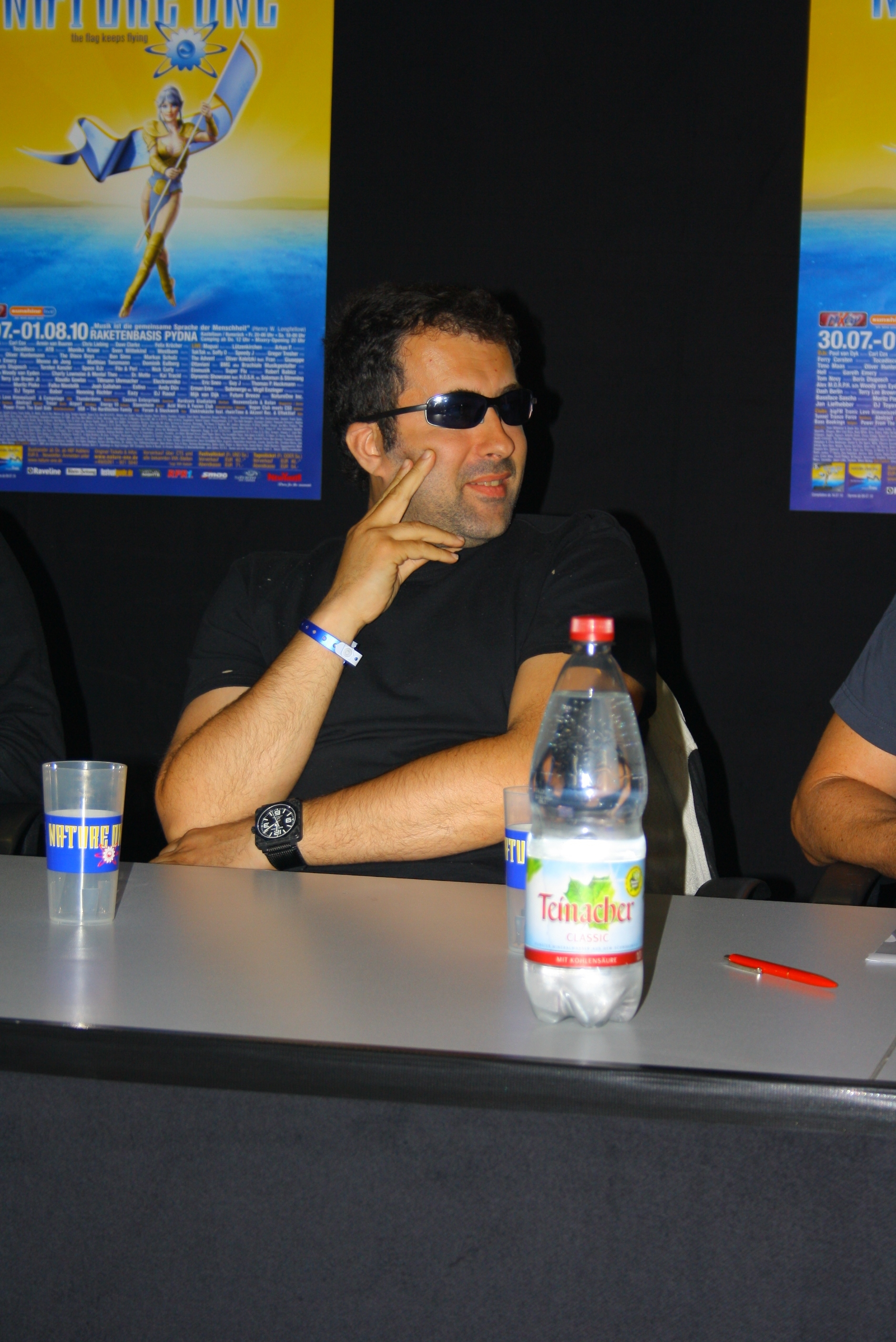 Dave Clarke at Nature One 2010